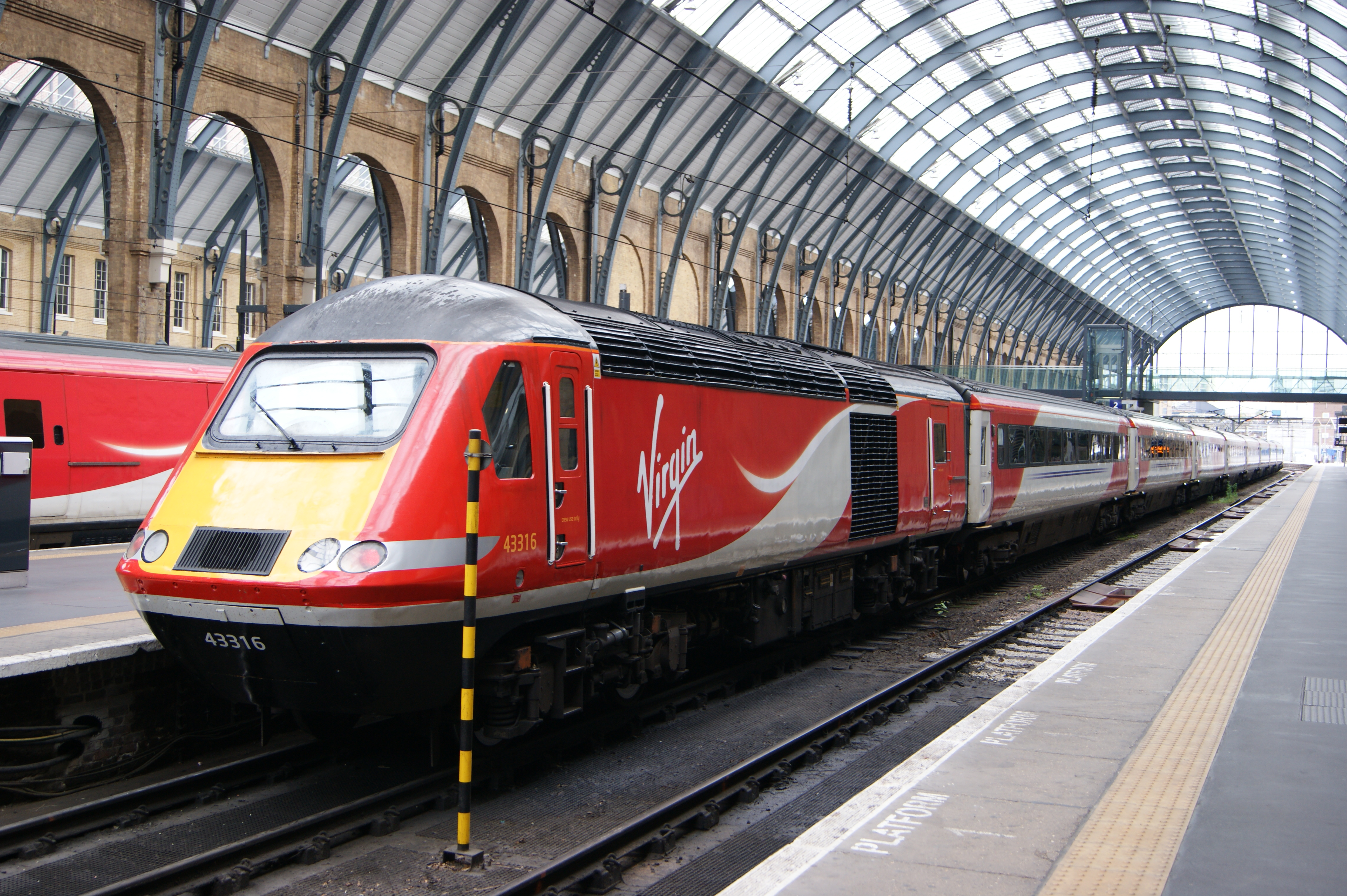 BREL Class 43/2 (MTU) HST 2,250 hp Bo-Bo No.43 316 (ex-43 116 'The Black Dyke Band'; ex-City of Kingston upon Hull') of Virgin Trains East Coast in their new livery at Kings Cross, 12 September 2015.